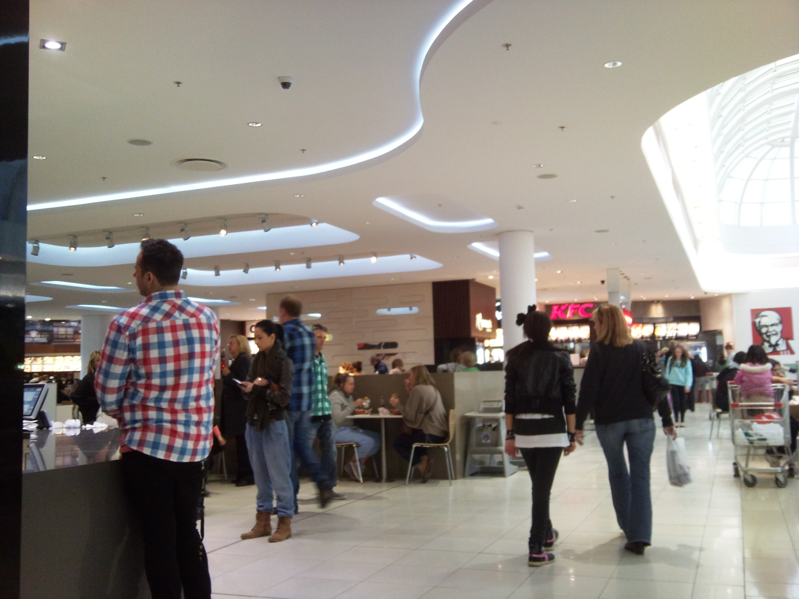 Food Court after 2011 redevelopment.